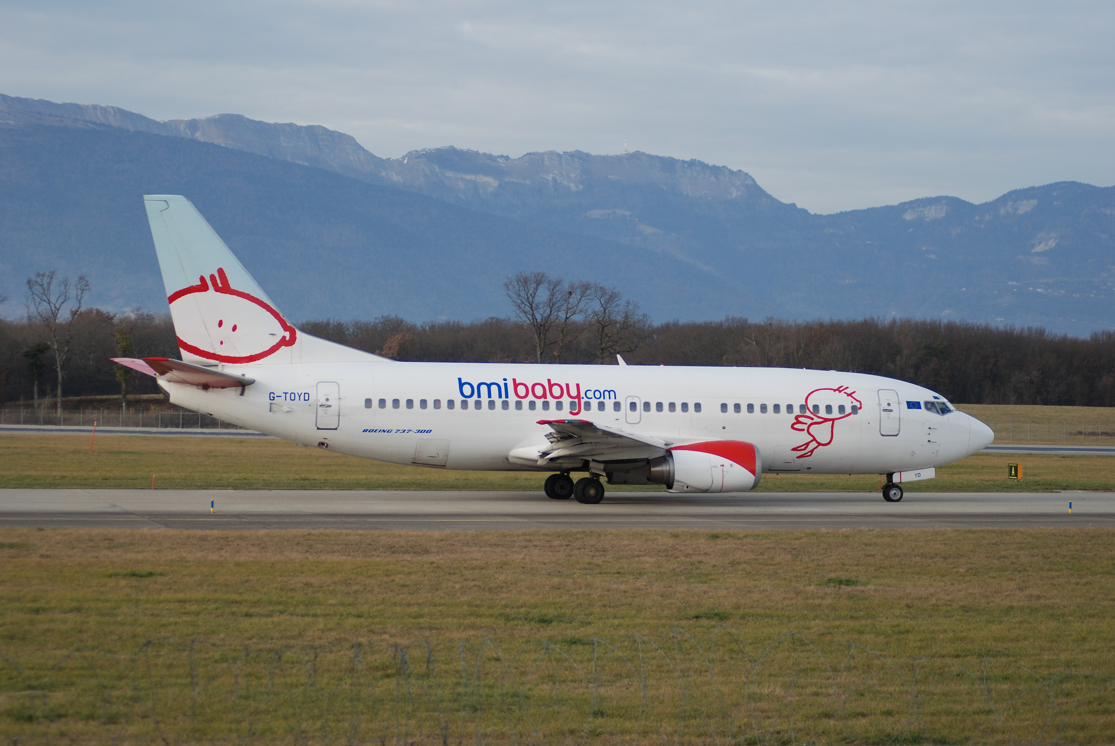 bmi Baby Boeing 737-300; G-TOYD@GVA;30.12.2006/445qp